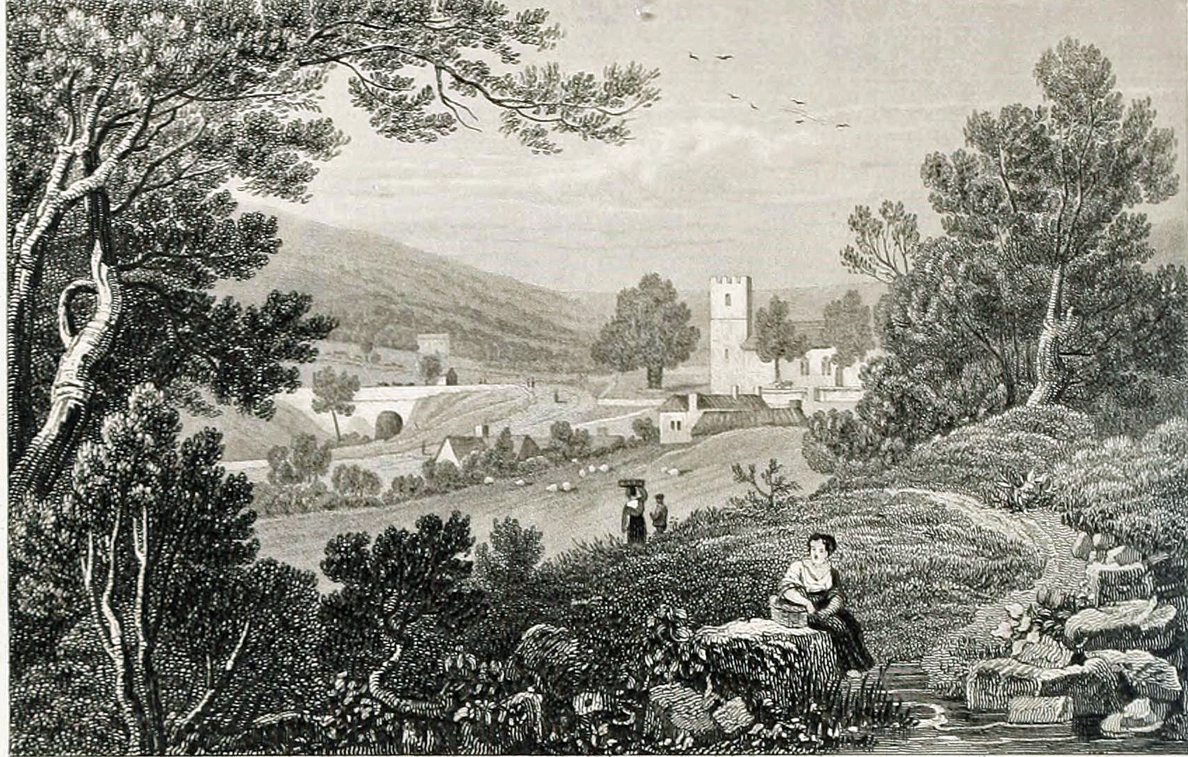 steel engraving of village church and countryside with people